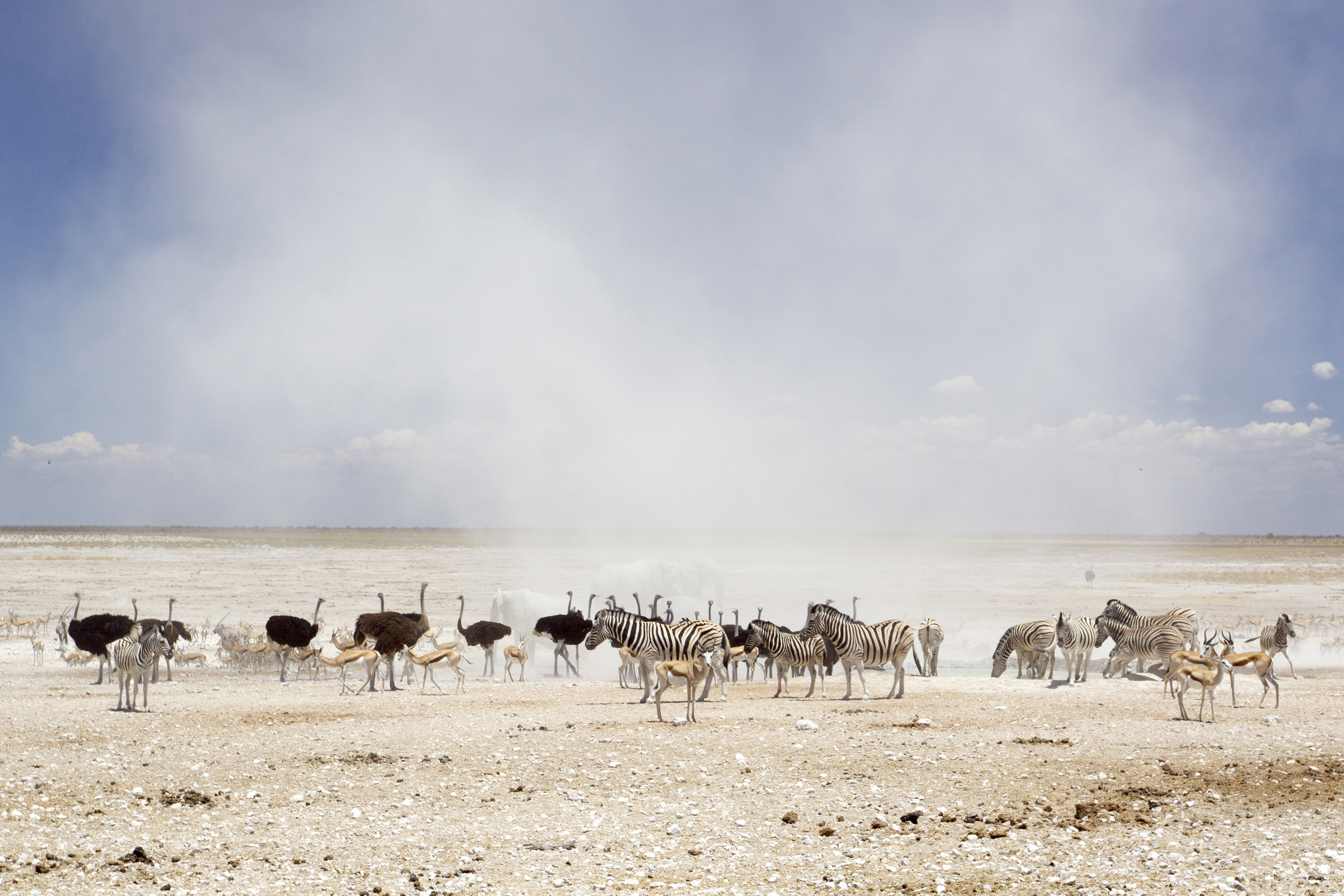 Dust cloud at the Nebrownii waterhole in Etosha National Park